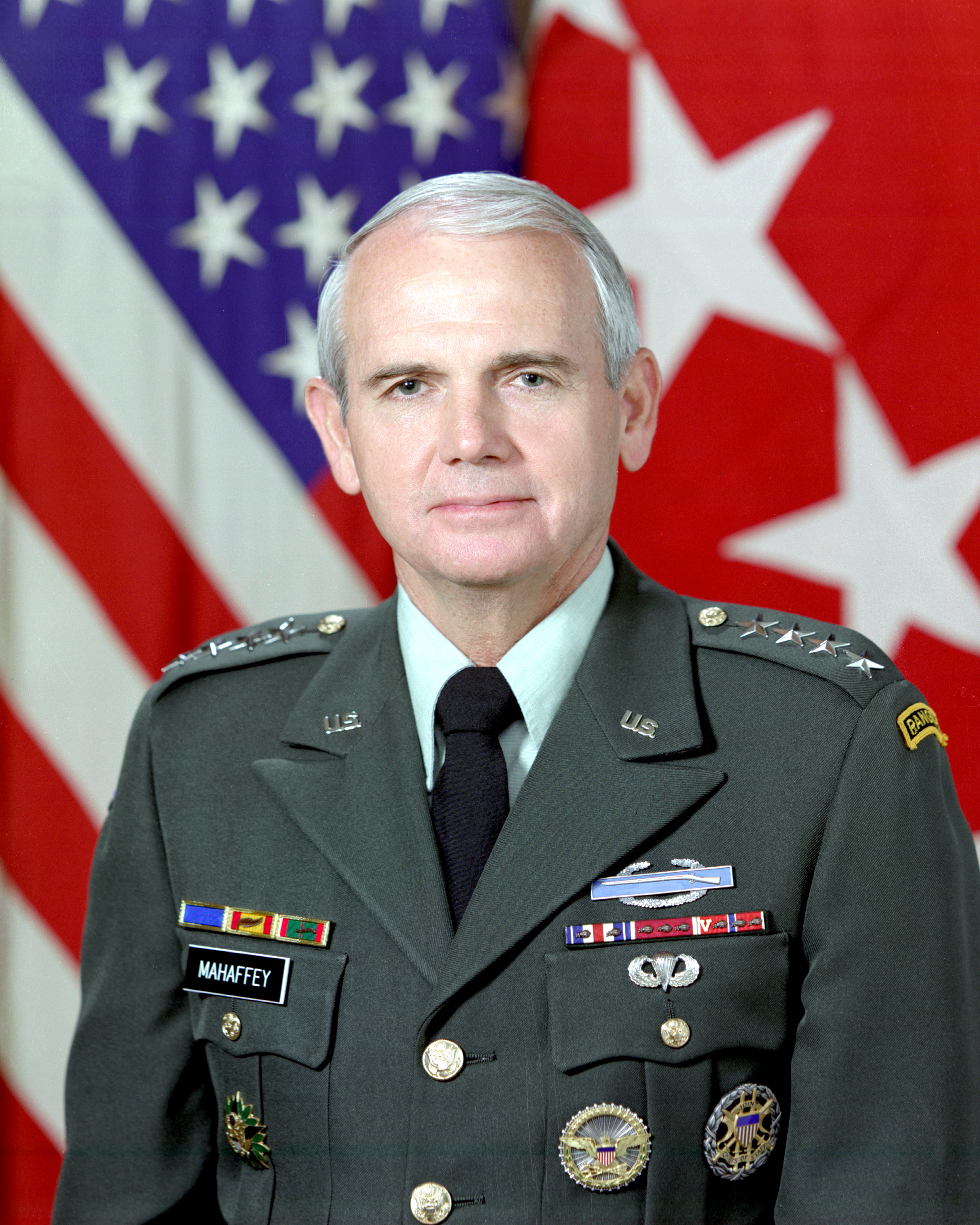 General Fred K. Mahaffey (uncovered)